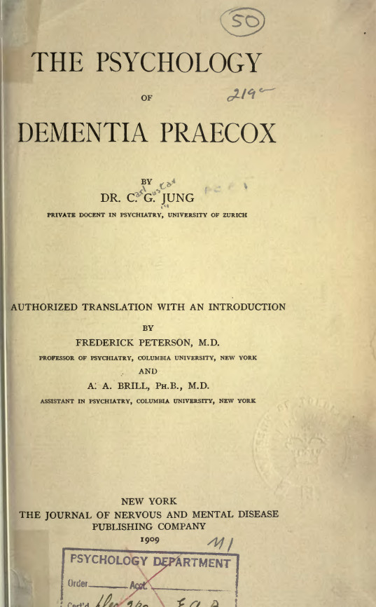 Page 5 of The psychology of dementia praecox (1909)